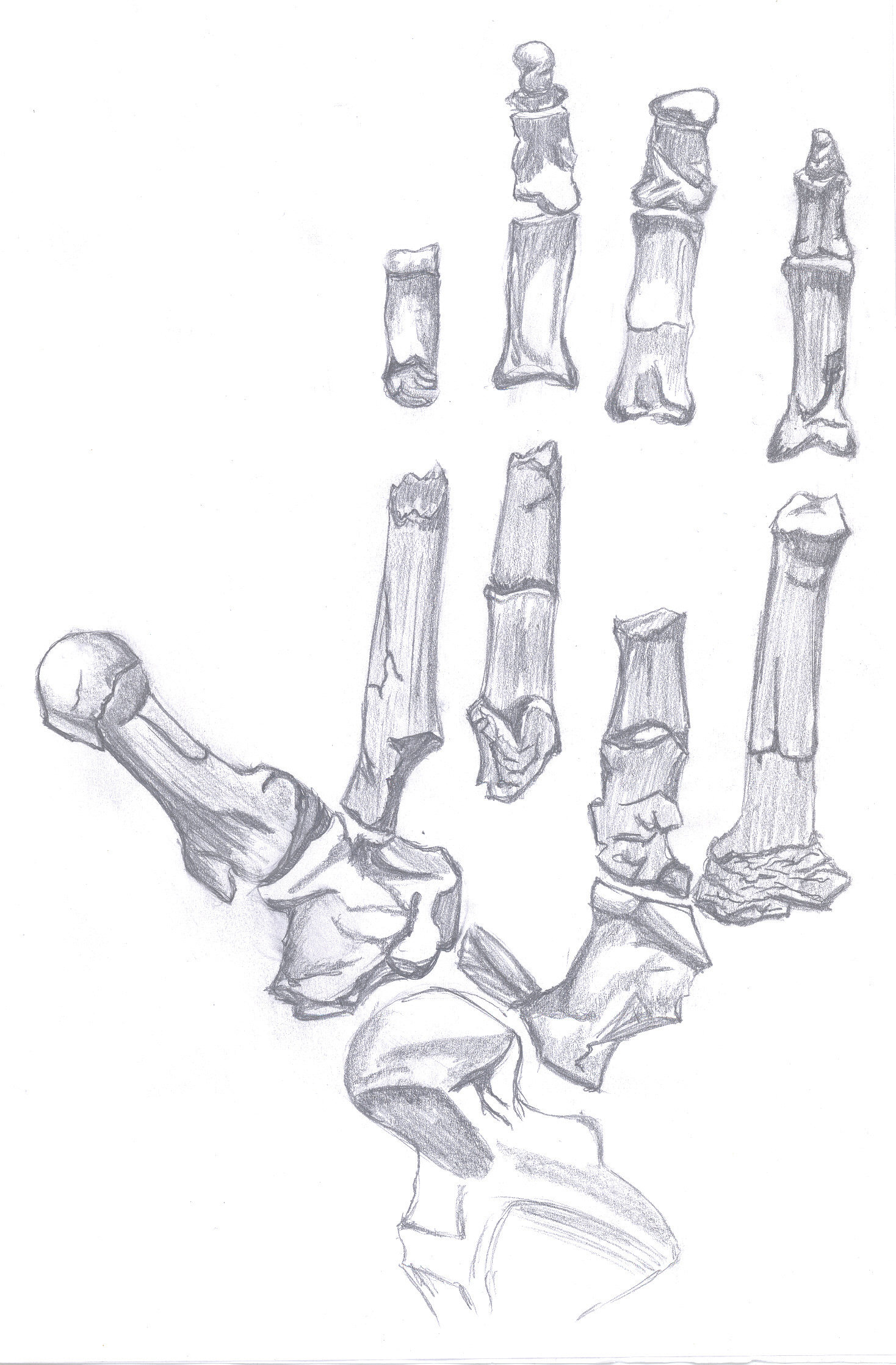 Ardipithecus ramidus („Ardi“), foot. Own drawed remake of p.37, "Science" of 2nd October 2009.